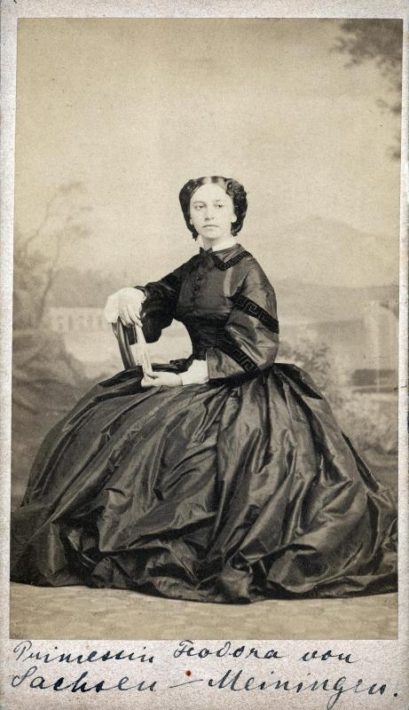 Prinzessin Feodora von Hohenlohe-Langenburg, Duchesses of Saxe-Meiningen